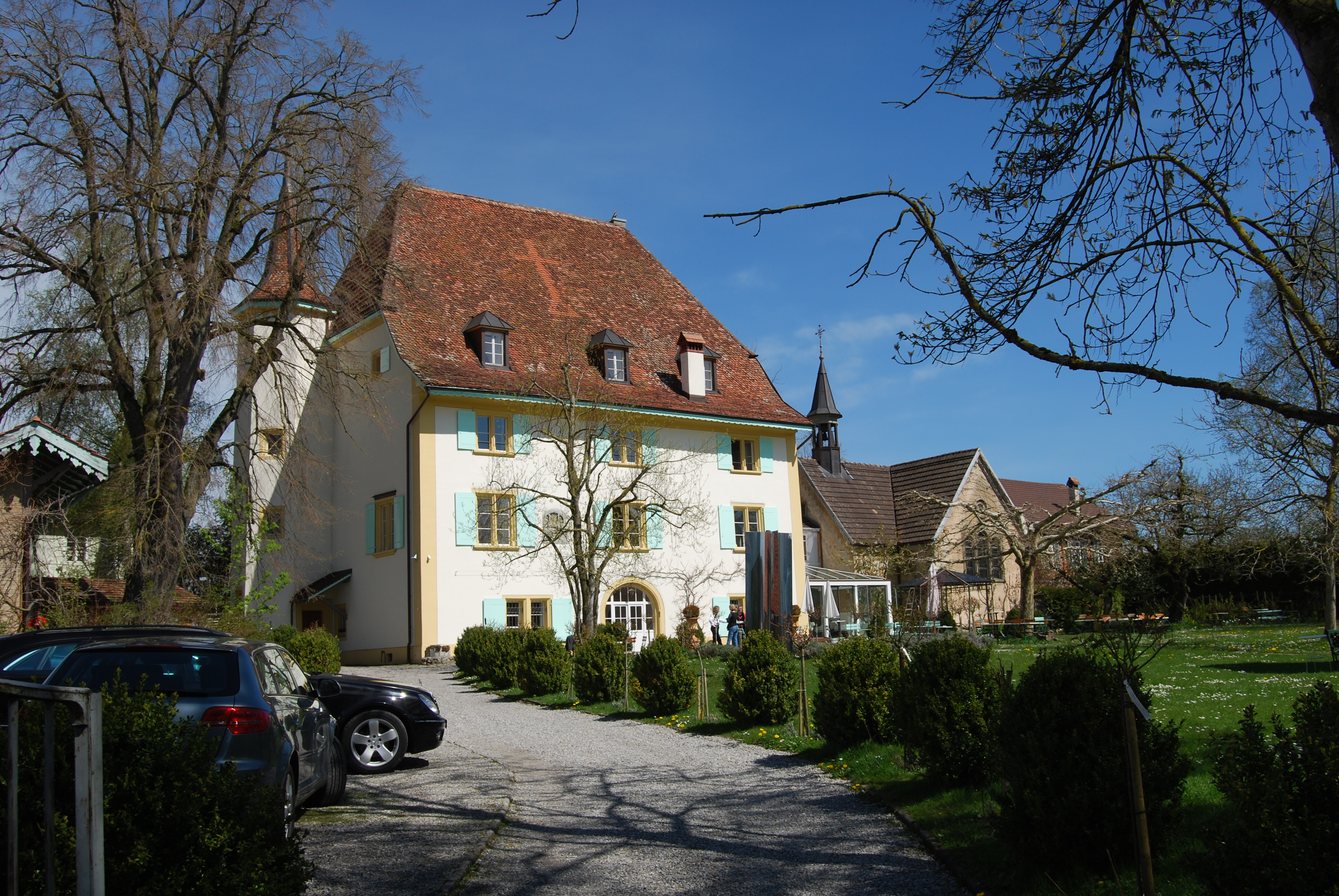 Castle Ueberstorf, canton of Fribourg, Switzerland